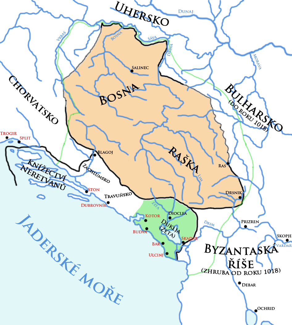 Serbian lands in 10th and 11th century